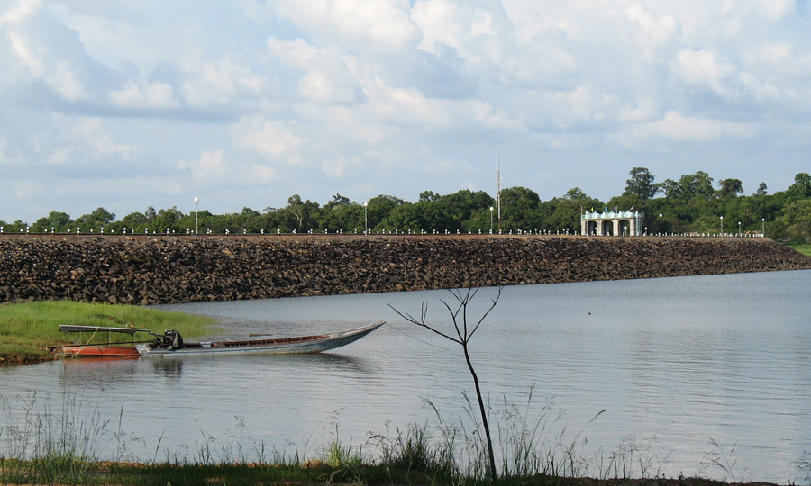 Sirindhorn Reservoir, Amphoe Sirindhorn, Ubon Ratchathani Province.